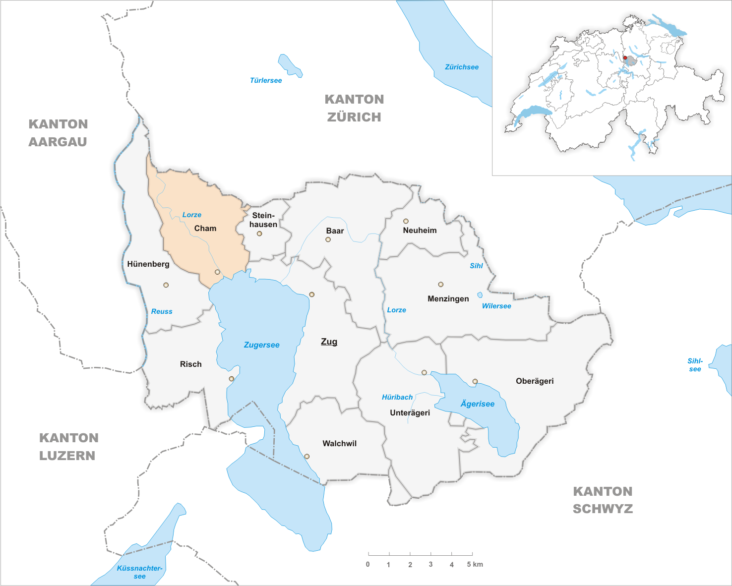 Municipality of Cham